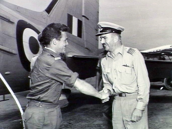 Iwakuni, Japan. On arrival in Japan former prisoner of war Sergeant Don Pinkstone is greeted by the Officer Commanding No. 91 (Composite) Wing RAAF, Group Captain D.R. Chapman. Pinkstone had been shot down over North Korea on 15th June, 1953 while flying with No. 77 Squadron.